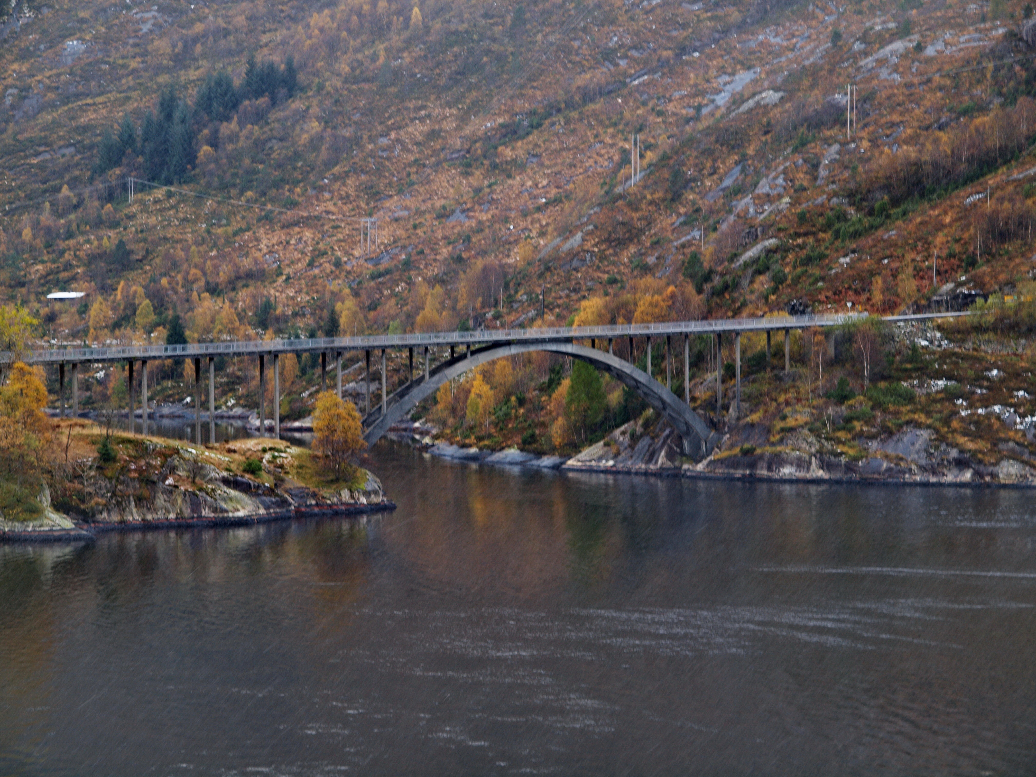 Leversundet bridge, Gulen municipality, Sogn og Fjordane county, Norway.